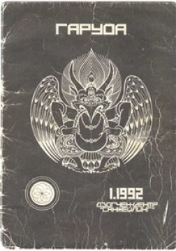 Garuda